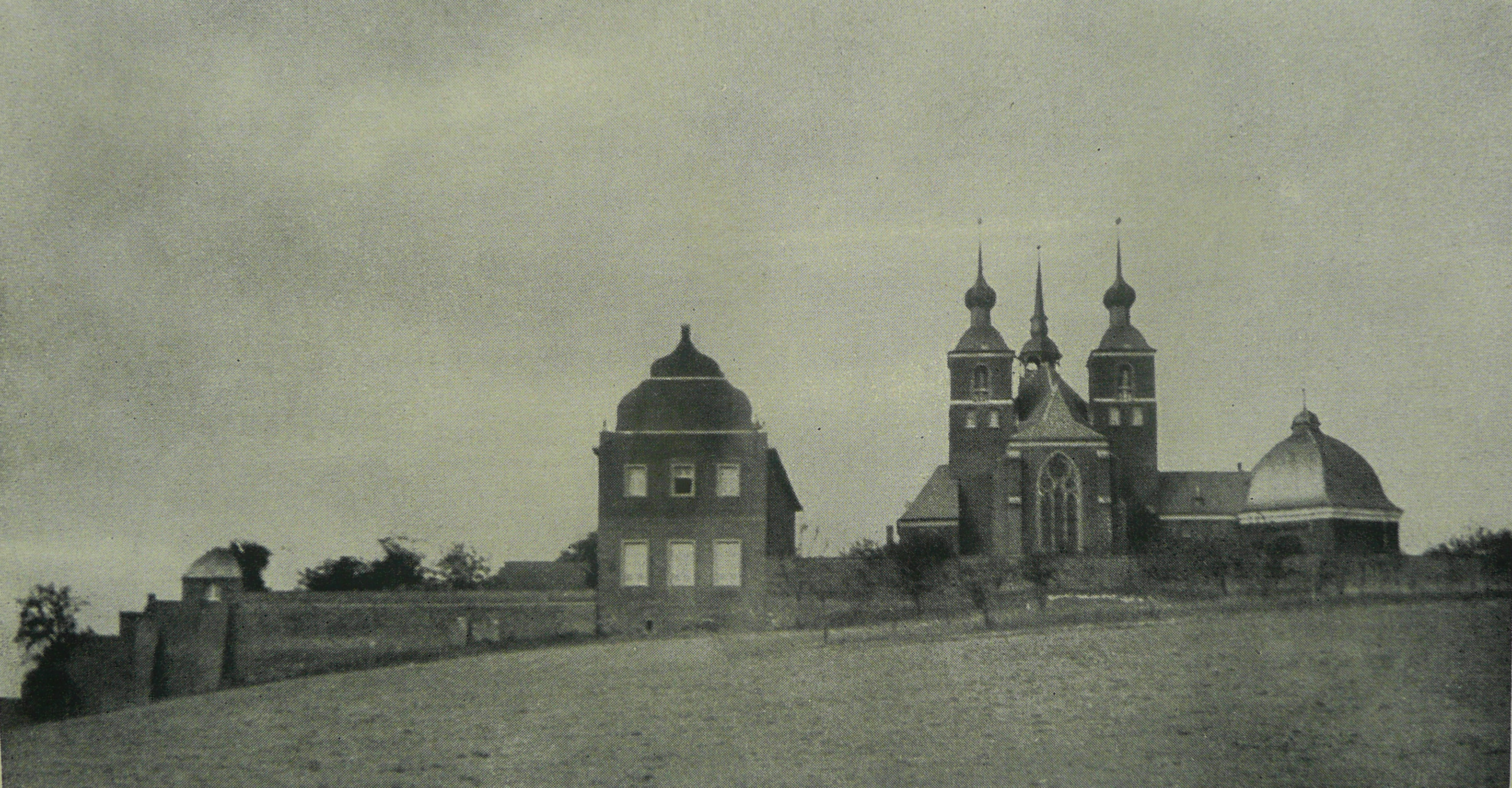 The Abbey of Kamp (Germany), ~1910